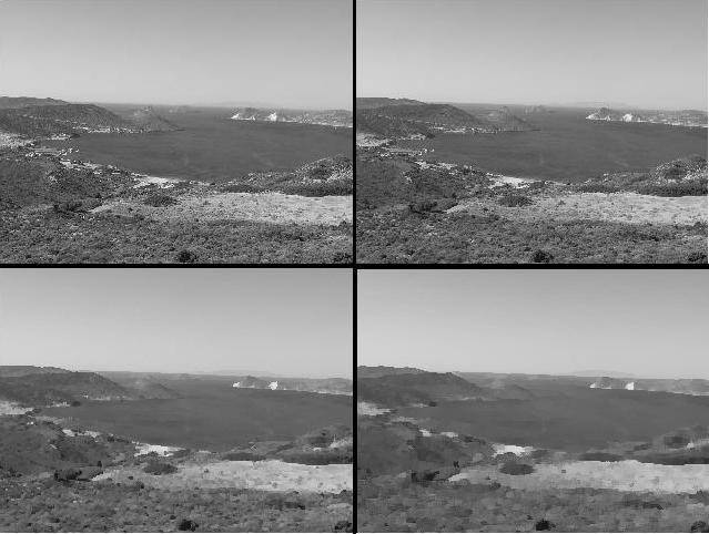 The effect of using a kuwahara filter on an original image(top left) using windows with sides 5,9 and 15 pixels. Bigger windows correspond to more blurry images.